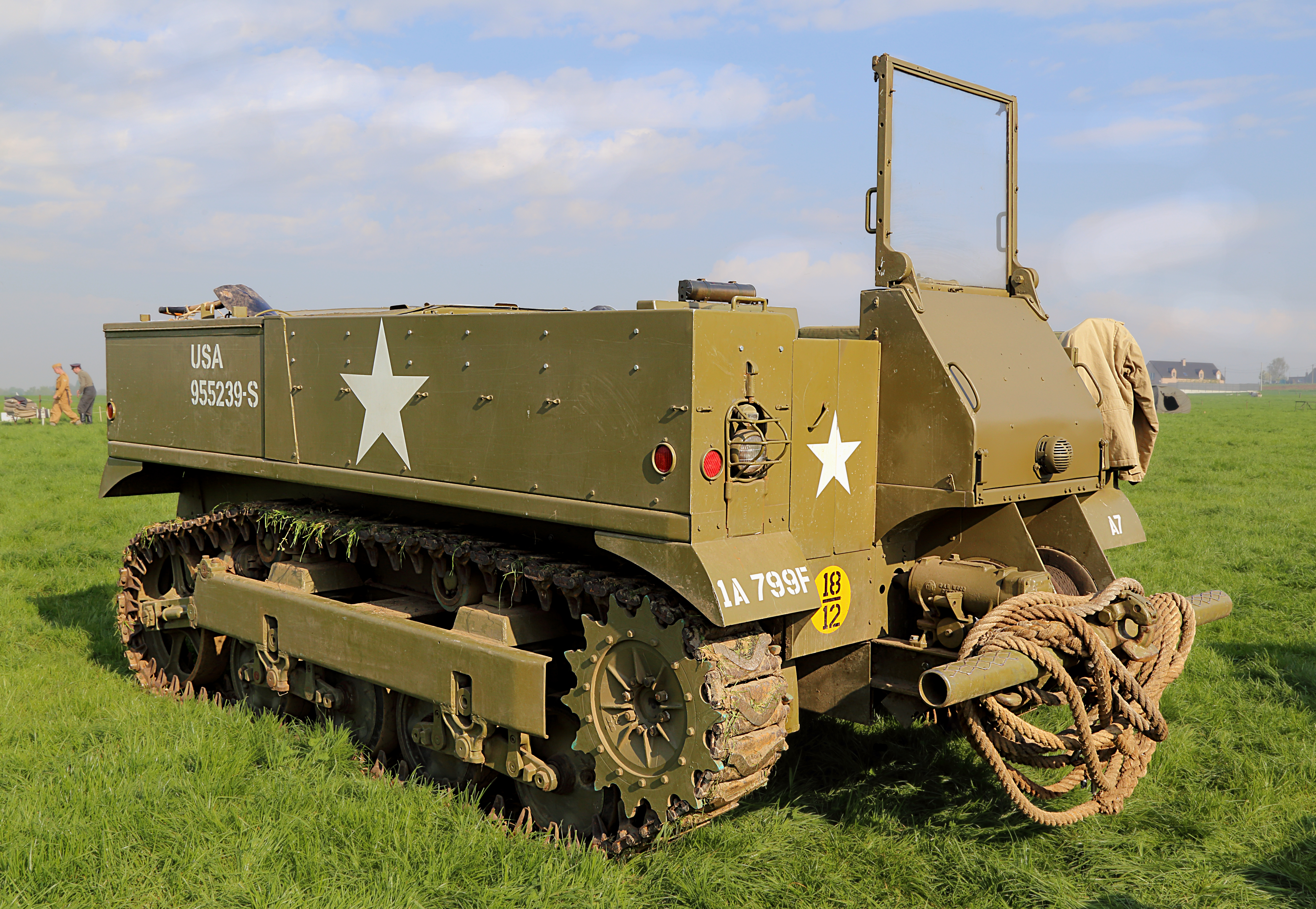 Tractor International Harvester M5, picture taken in Luingne, Belgium.